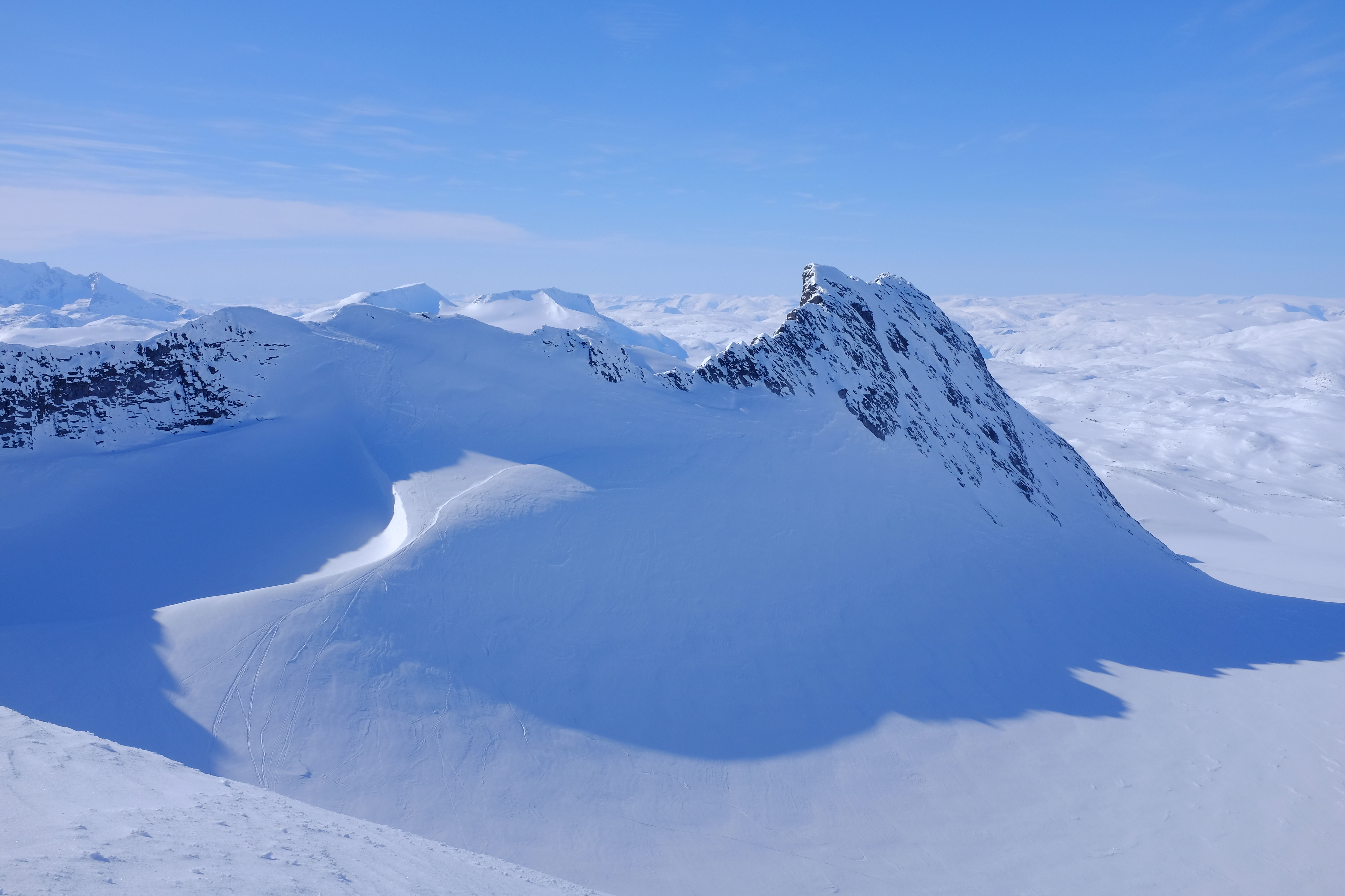 Skeie mountain in Jotunheimen Nasjonal Park, Lom, Oppland, Norway. Picture taken from Bjørneungen mountain. "Skeie" literally means "the spoon". It is part of the mountain chain Smørstabbtindan.